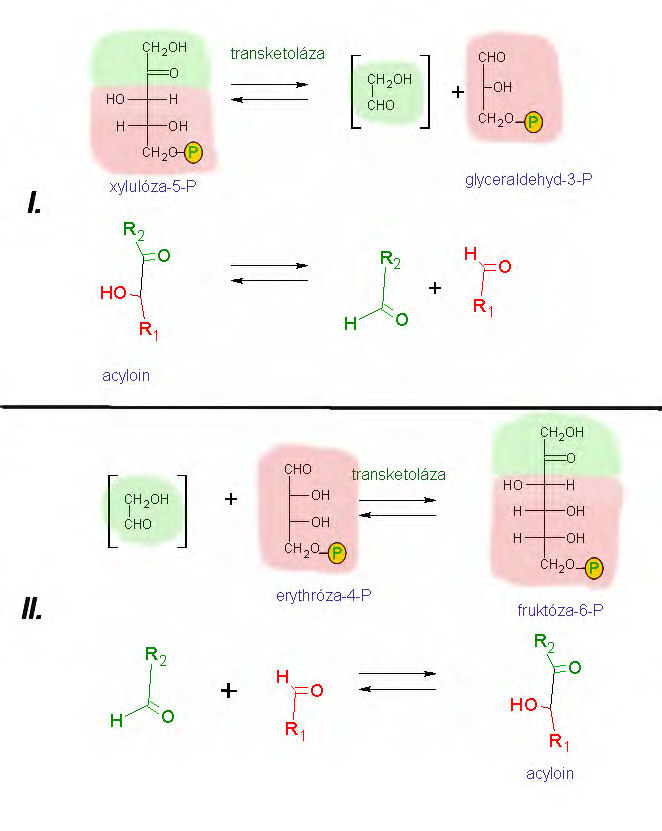 transketolase reaction